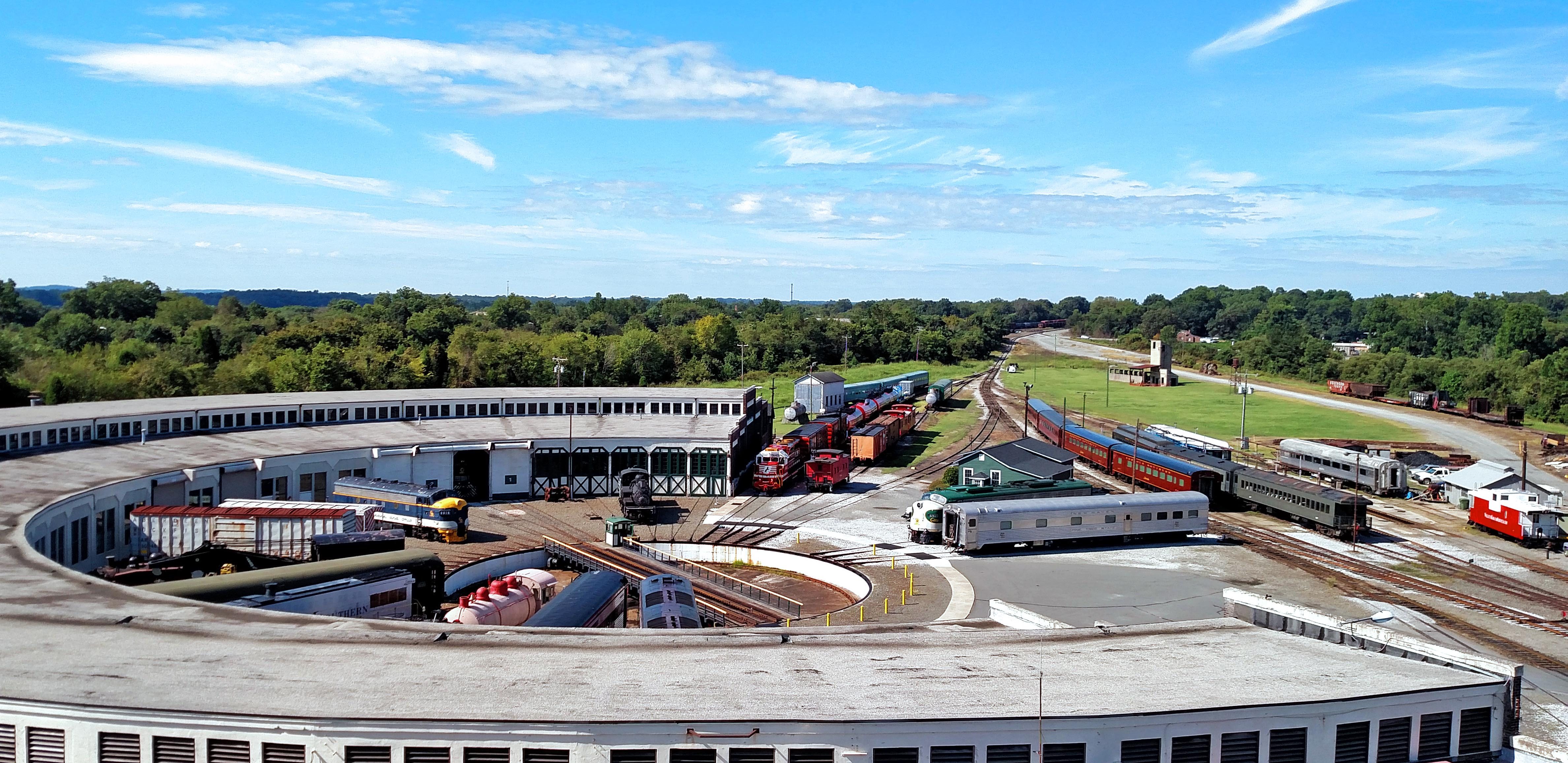 The Bob Julian Roundhouse, built in 1924, was the site for steam locomotive work that would take 2 days or less. The building fell into disrepair after Southern Railway departed the property, but was fully restored and now houses locomotive and aviation exhibits.